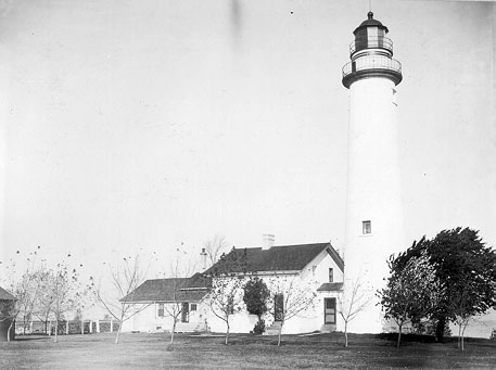 The Pointe aux Barques Lighthouse near Huron City, Michigan, United States is listed on the US National Register of Historic Places (NRHP). The lighthouse is still in operation as an aid to navigation, and houses two museums in portions of the facility no longer needed by the Coast Guard.NRHP reference number 73000949